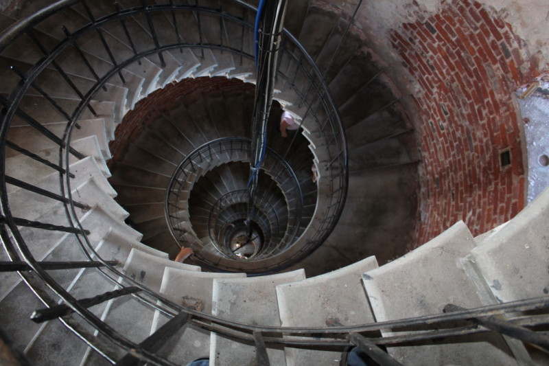 Stairwell inside the Bengtskär lighthouse.